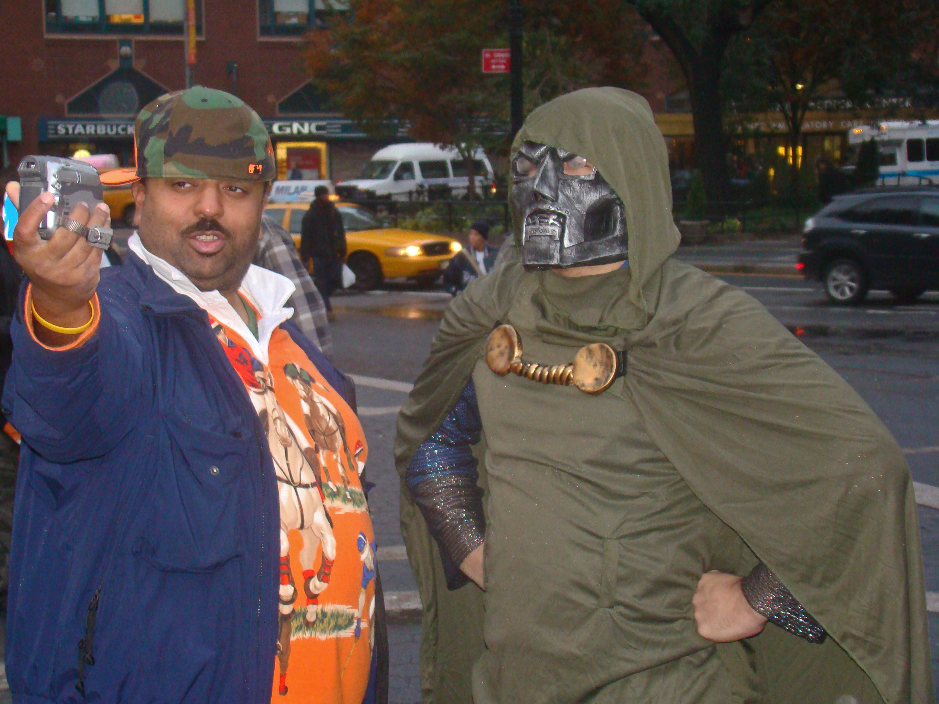 dr. doom being interviewed, marvel comics costume contest, union square, new york Feel free to tweet, blog, or in any other way share my photos. And please let me know if you see yourself in any of my pictures or if you'd like to!